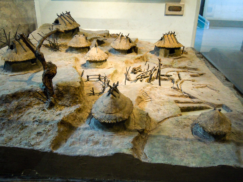 This is a model of an ancient hut from the Palatine Hill, Rome.